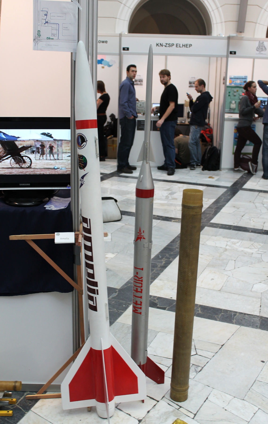 Students' Space Association's Rocketeer's rockets (Warsaw University of Technology) - Amelia 1, Meteor-1 (both model rockets) and H1 (Hypersonic) rocket engine.